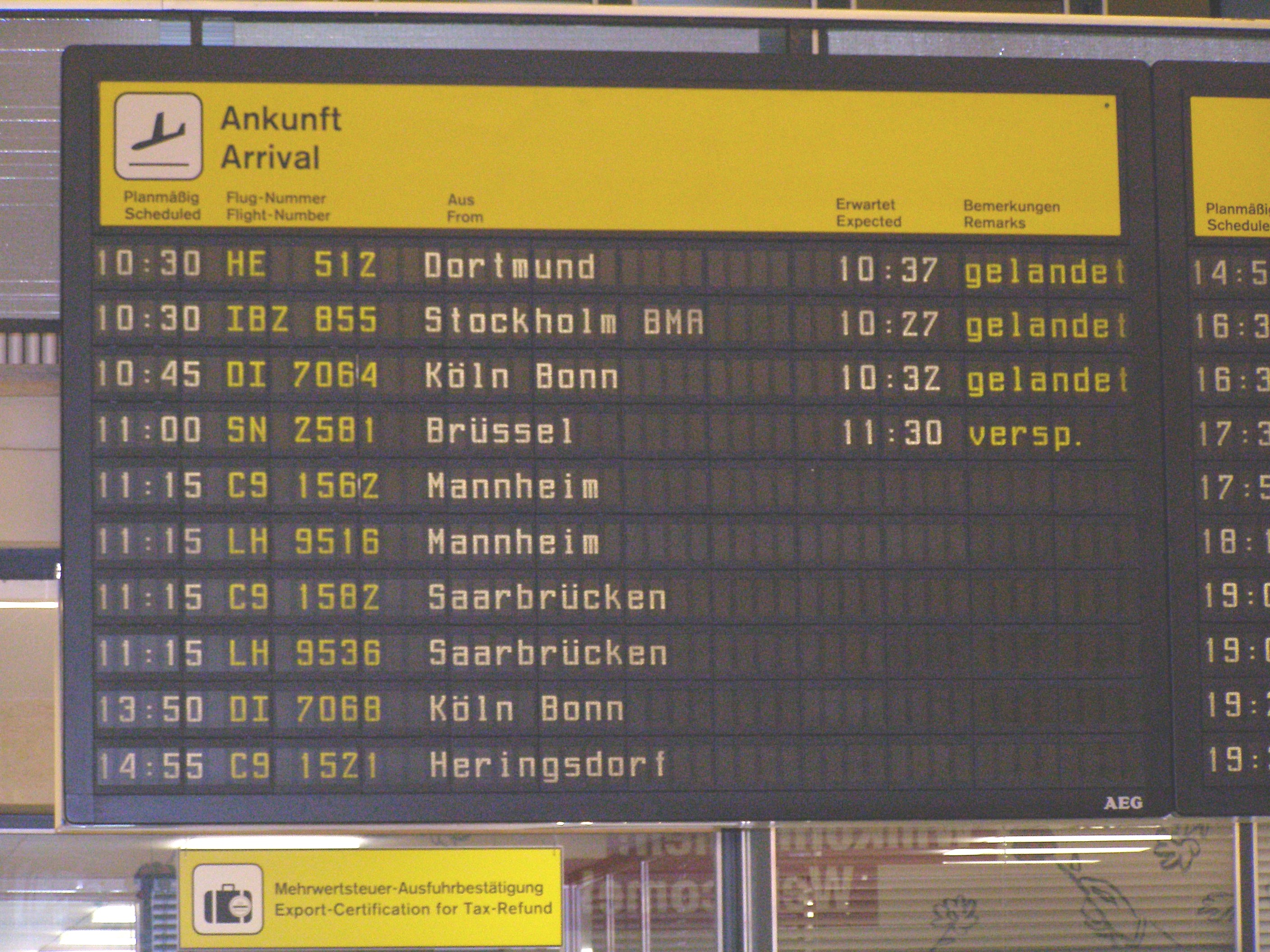 Berlin Tempelhof Airport. Arrivals.